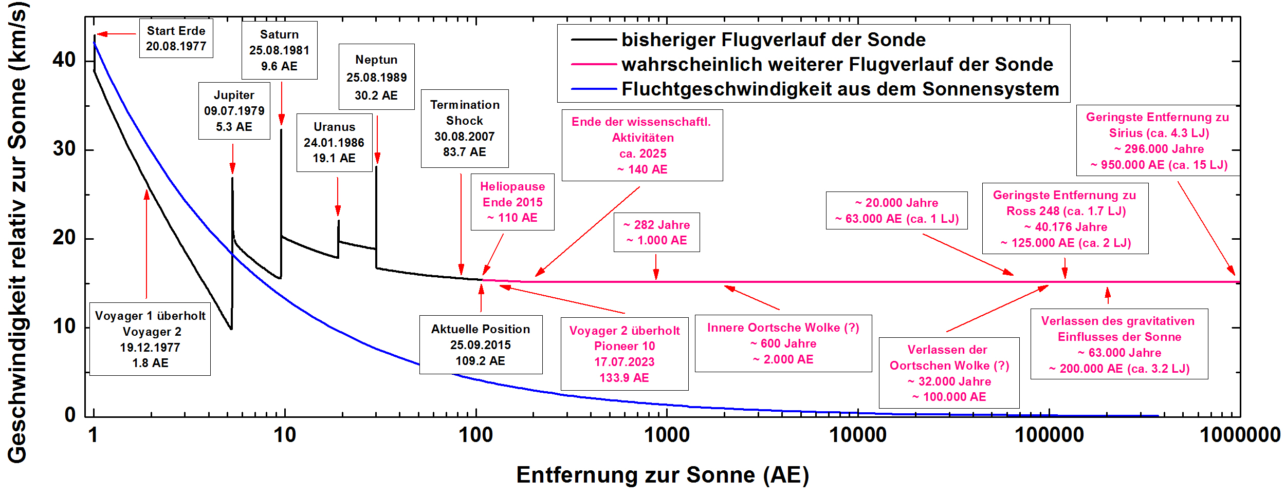 Past and future mission of the Voyager 2 probe based on their velocity w.r.t. the sun